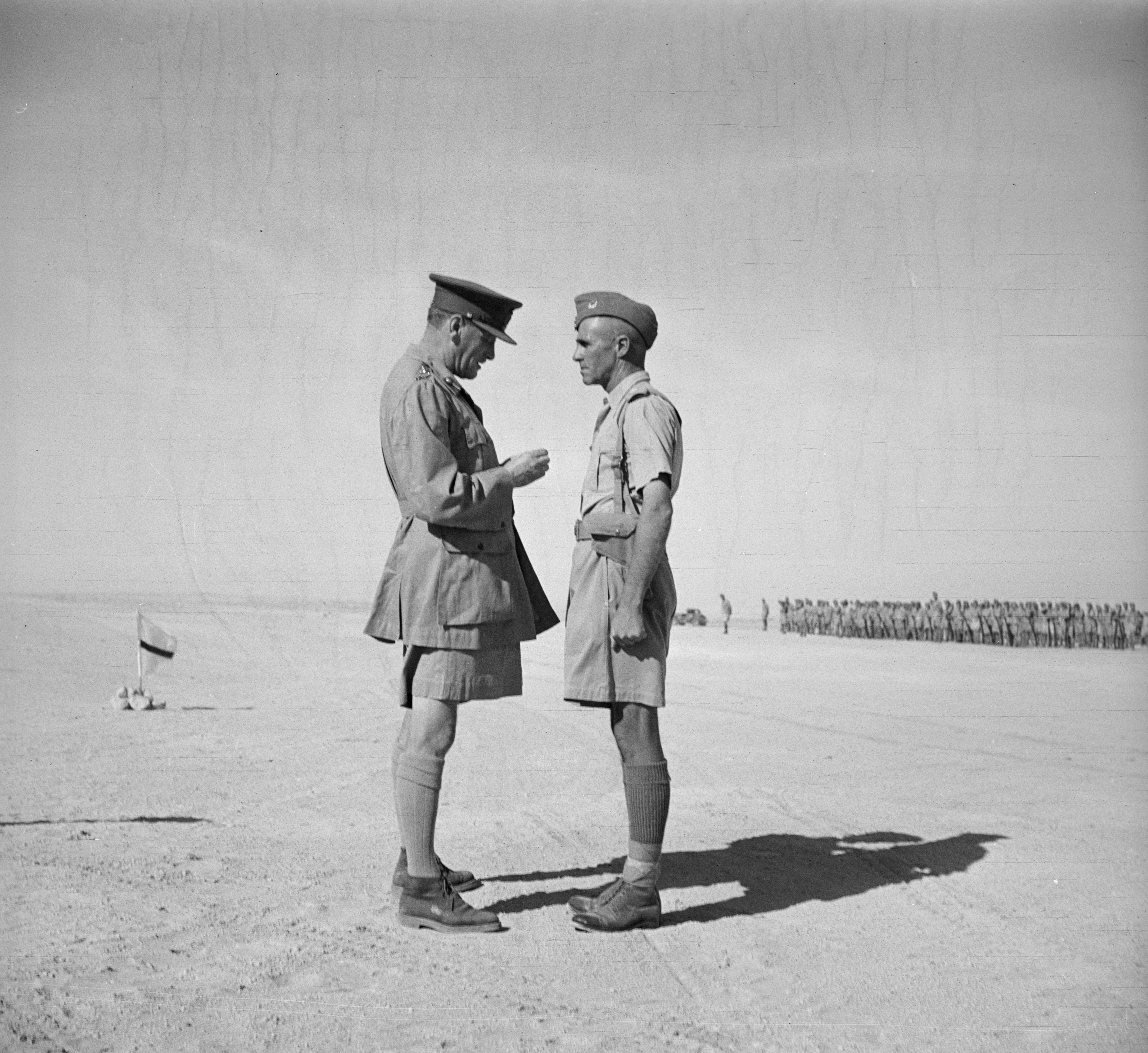 General Auchinleck, Commander in Chief of the Middle East Forces, decorating Lieutenant Colonel Howard Karl Kippenberger with the Distinguished Service Order during presentation of awards to members of a NZ brigade in the Western Desert. Taken at Baggush on 4 November 1941 by an official photographer. The author of this work was an official photographer of the NZ Military Forces and thus copyright in this work rests with the Crown. The work has licenced for re-use under CC 3.0. Refer to source website webpage on copyright information